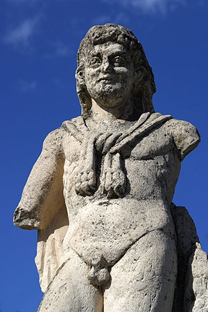 Roman statue of Hercules at Augst (Augusta Raurica), Basel-Land, Switzerland